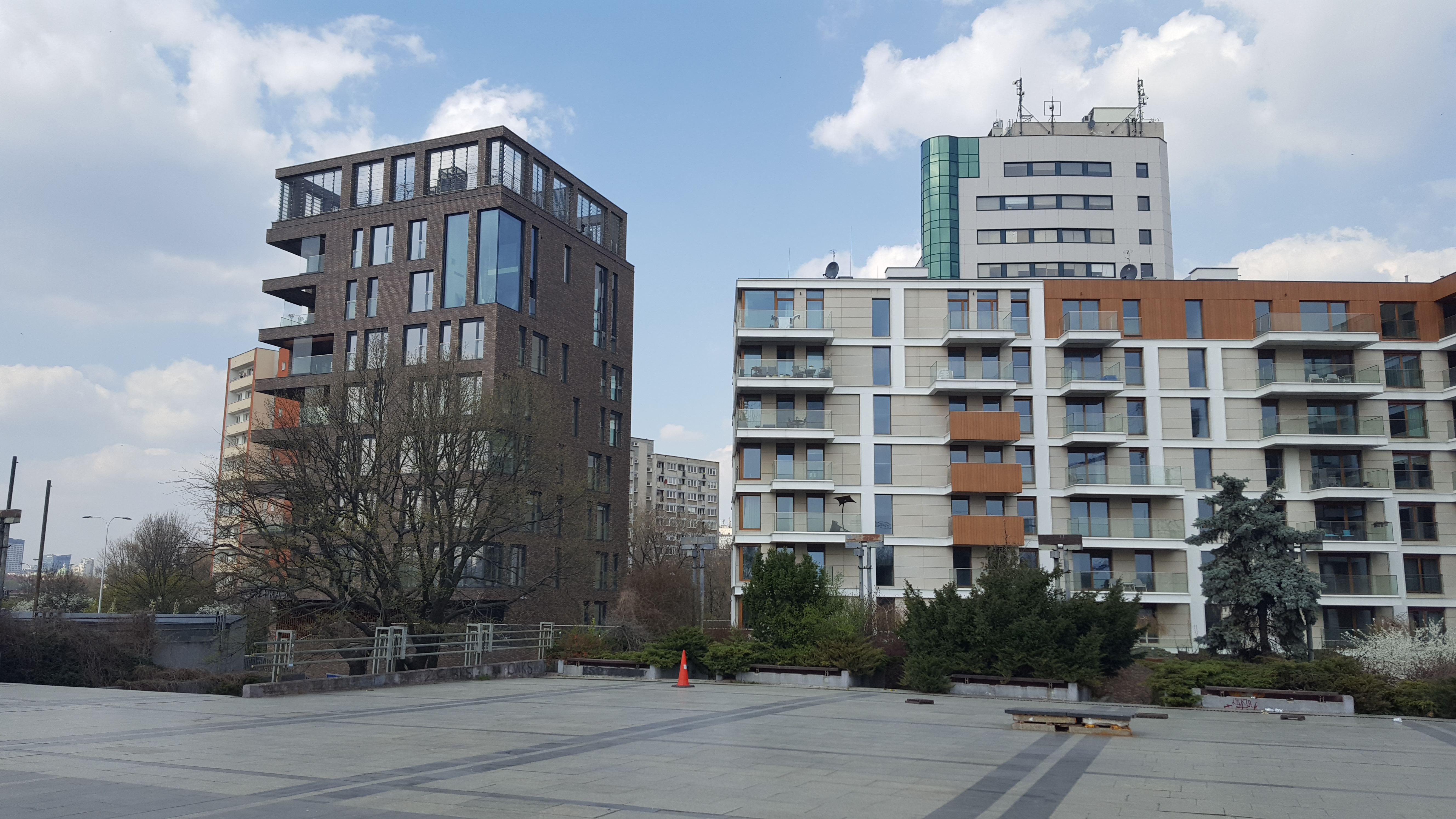 Port Praski Development 2019